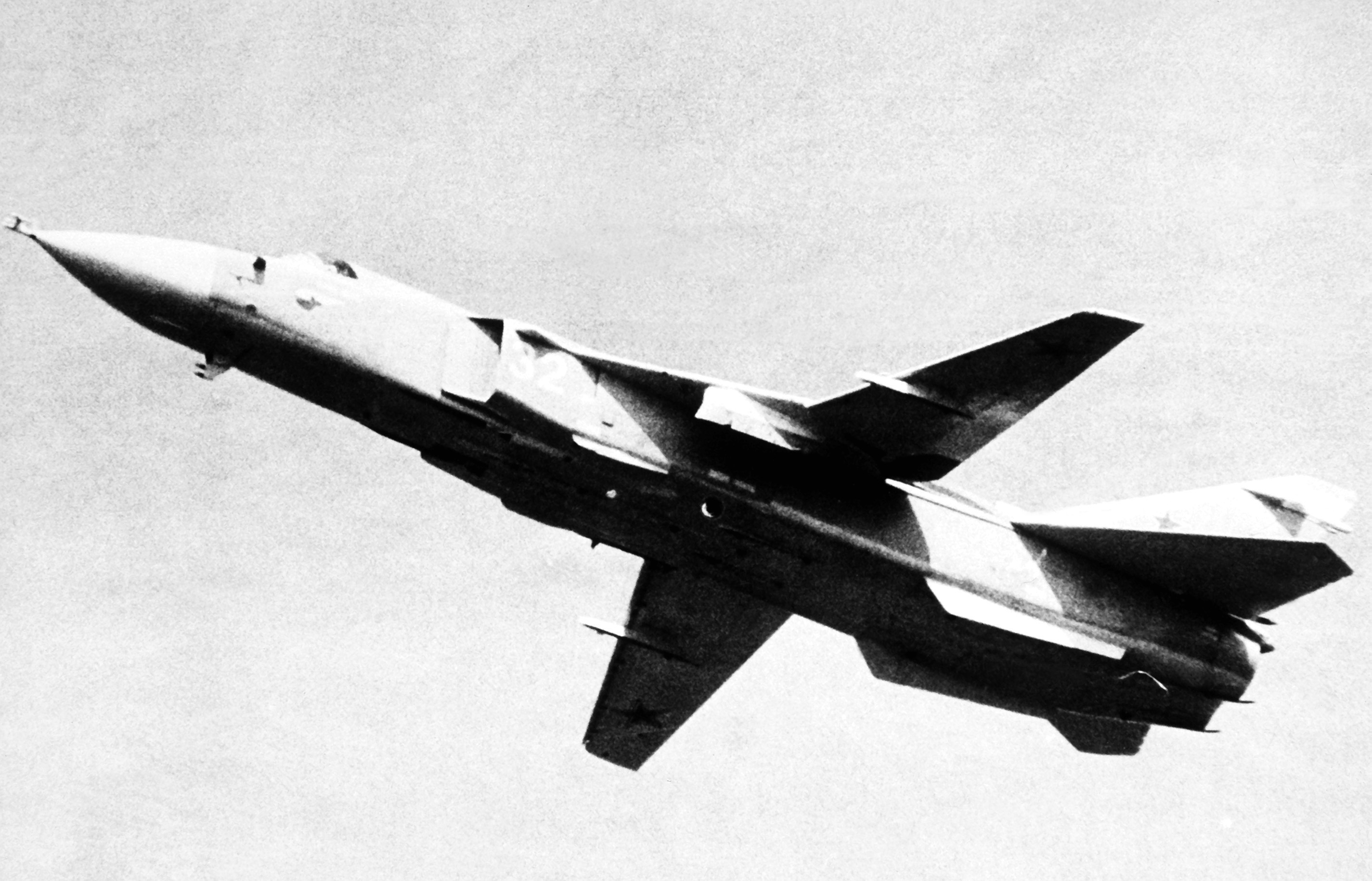 Left side view of a Soviet Su-24 Fencer fighter/bomber aircraft. "Soviet Military Power," 1983, Page 40